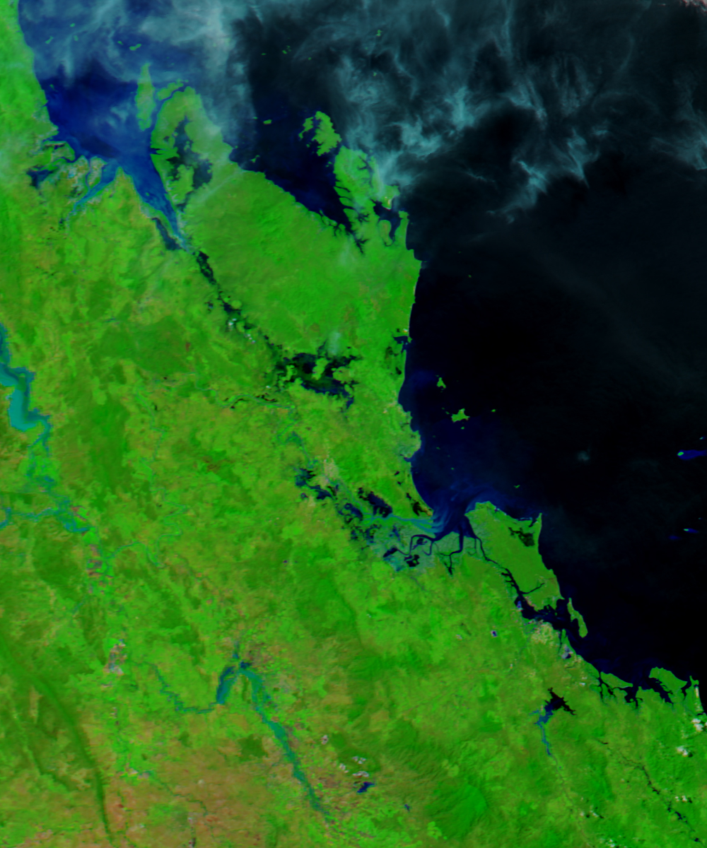 On March 2017, Cyclone Debbie struck the coast of Queensland, Australia, and dumped large amounts of rain throughout the state. Several days later, flood water was still working its way through the state’s waterways and toward the Coral Sea. When the Moderate Resolution Imaging Spectroradiometer (MODIS) on NASA’s Aqua satellite captured this image on March 31, 2017, waterways were swollen in the Fitzroy Basin. The second image, acquired on February 11, 2017, shows the region before the storm passed through. Both images were made with visible and infrared light (MODIS bands 7-2-1) in a combination that highlights the presence of water on the ground. Water is generally dark blue or black in this type of image, but the rivers here appear light blue because they carry large amounts of suspended sediment. On April 3, 2017, the low-lying city of Rockhampton, which spans the Fitzroy River, braced for damaging floods. Australia’s Bureau of Meteorology forecasts that flood waters on the Fitzroy will likely crest at 9 meters (30 feet) on Wednesday, just short of the peak floods that affected the city in 2011. While water had not yet inundated Rockhampton when the image was acquired, a large volume of flood water was visible upstream (on the left side of the image). Also, flood water had pooled in several low areas to the north, west, and south of the city. Turn on the image comparison tool for a better look. The cyclone displaced tens of thousands of people from their homes in Queensland and New South Wales, cut power to at least 100,000 people, and contributed to at least two deaths, according to news reports.